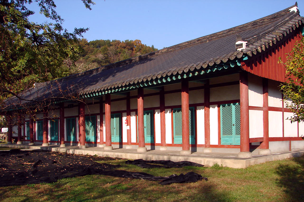 Jeonju Hyanggyo is a Confucian school that was established during the Joseon Dynasty (1392-1910) and was rebuilt at its present Jeonju site in 1603. There are a total of 99 rooms at the hyanggyo. The memorial enshrinement, Daeseongjeon, is in the front, while the lecture hall, Myeongyundang is in the rear. This style of building arrangement is very rare for a hyanggyo. Designated historical treasure No. 379.